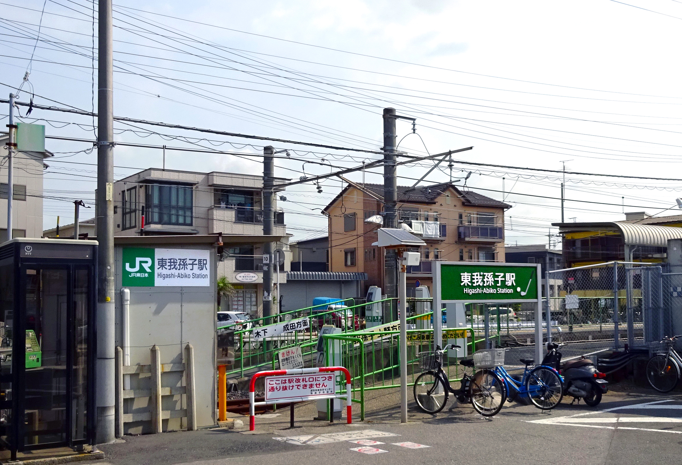 Higashi-Abiko Station(South side)